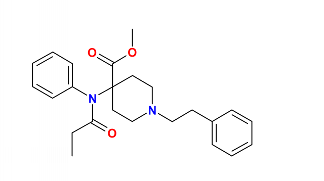 The structure of Carfentanil